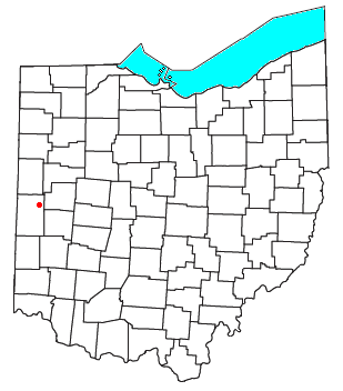 Locator map of the unincorporated community of Frenchtown in Darke County, Ohio, United States.